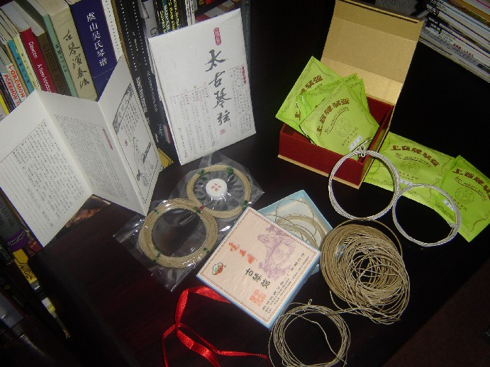 Photo of a selection of qin strings: Taigu Qinxian [zhongqing grade] (silk), Huqiu Guqin Xian (silk), Shangyin Pai Qinxian: Shanghai Conservatorie Quality Strings (metal-nylon)